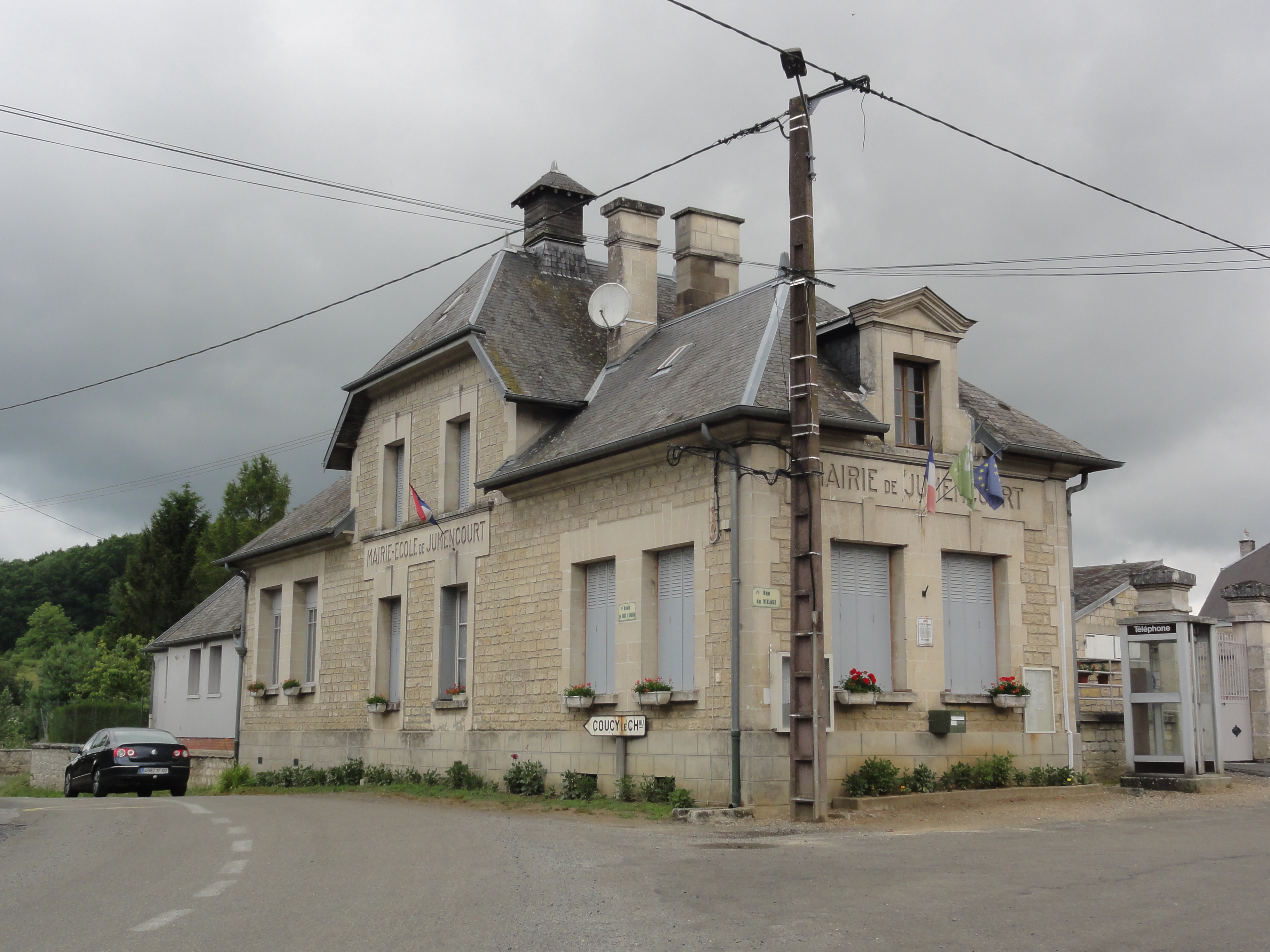 Jumencourt (Aisne) mairie-école